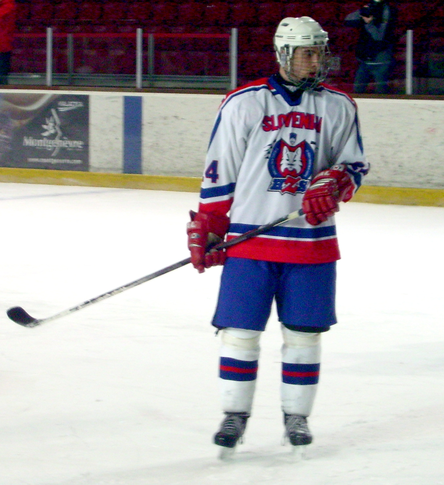 Aleksandar Magovac, slovenian ice hockey player. U18 tournament in Briançon, France 2009.